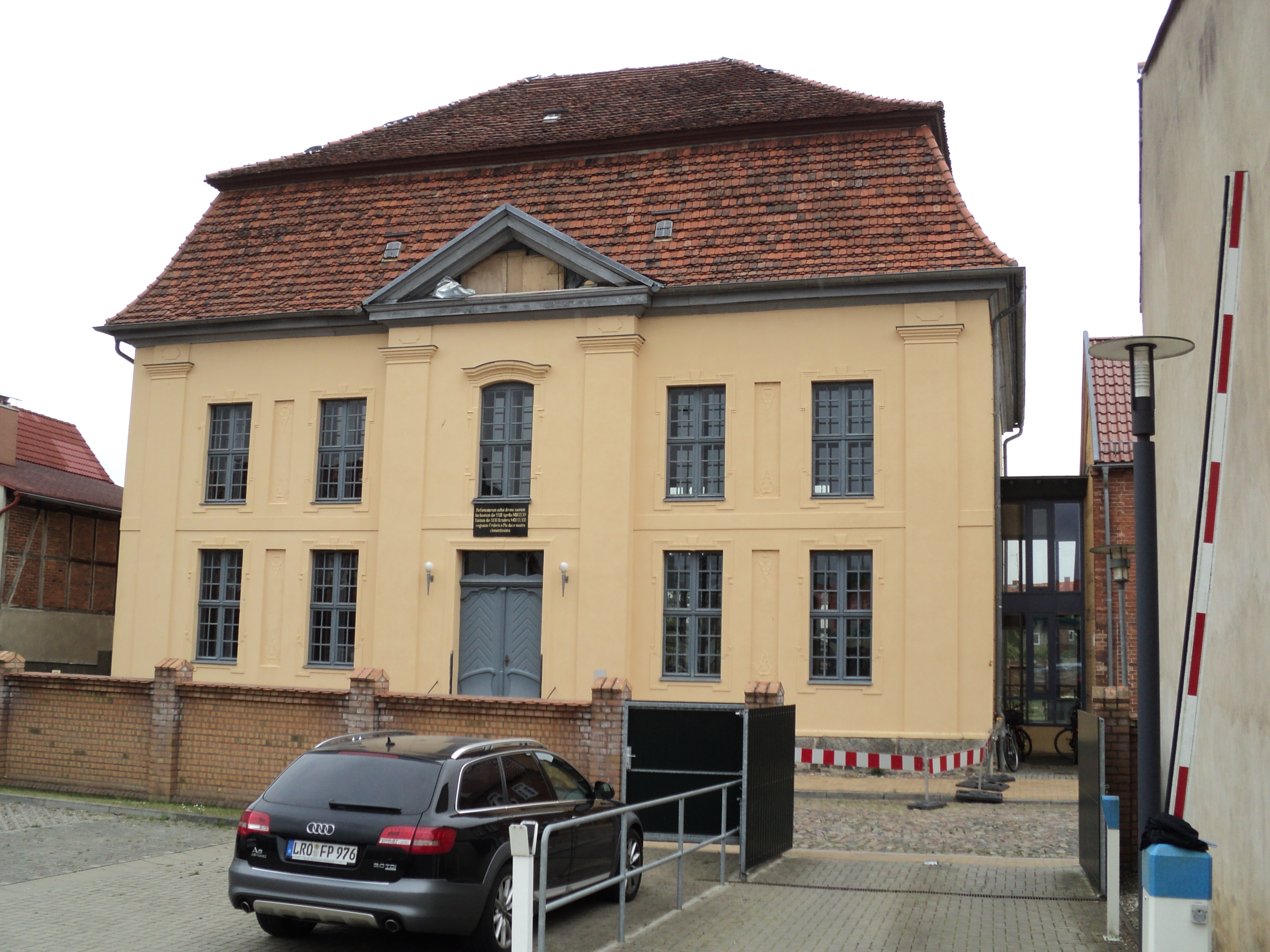 The Reformed Church on Ellernbruch (i.e. alders brook street) in Bützow, inaugurated in 1771.